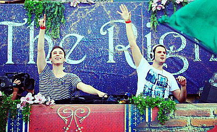 W&W at TomorroWorld 2013.